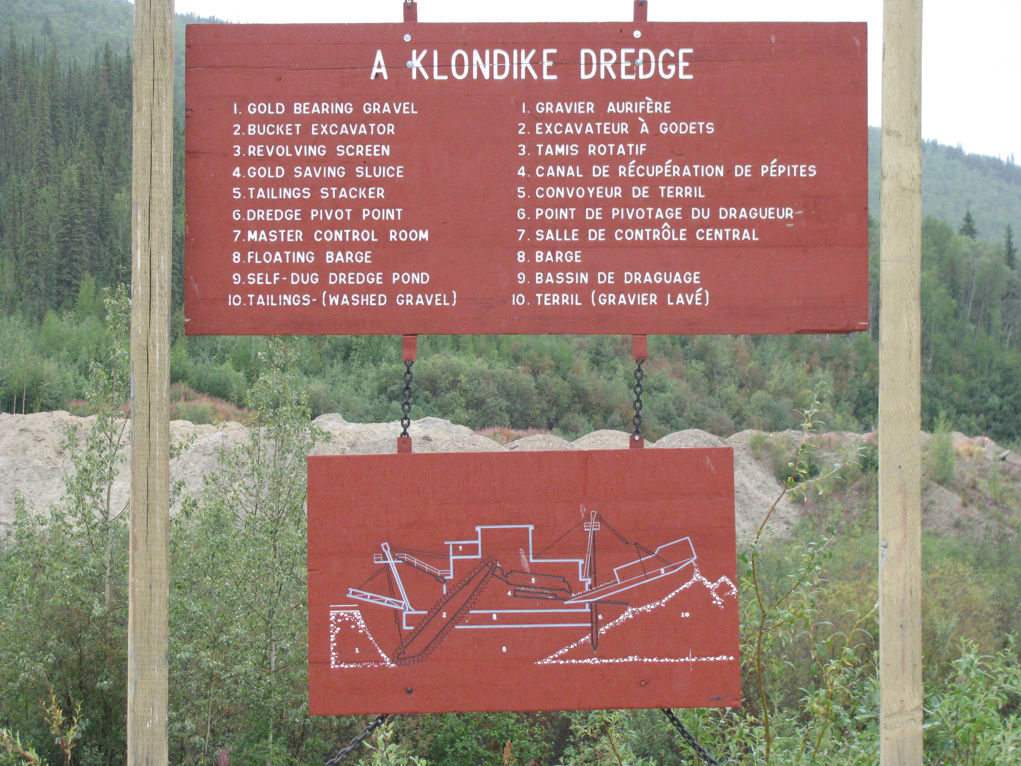 Dredge #4, Dawson City, Yukon, Canada. Photographed on 12 August 2009. The Dredge was a major gold producer during the early 20th Century. Joint ©© Arthur D. Chapman and Audrey Bendus.